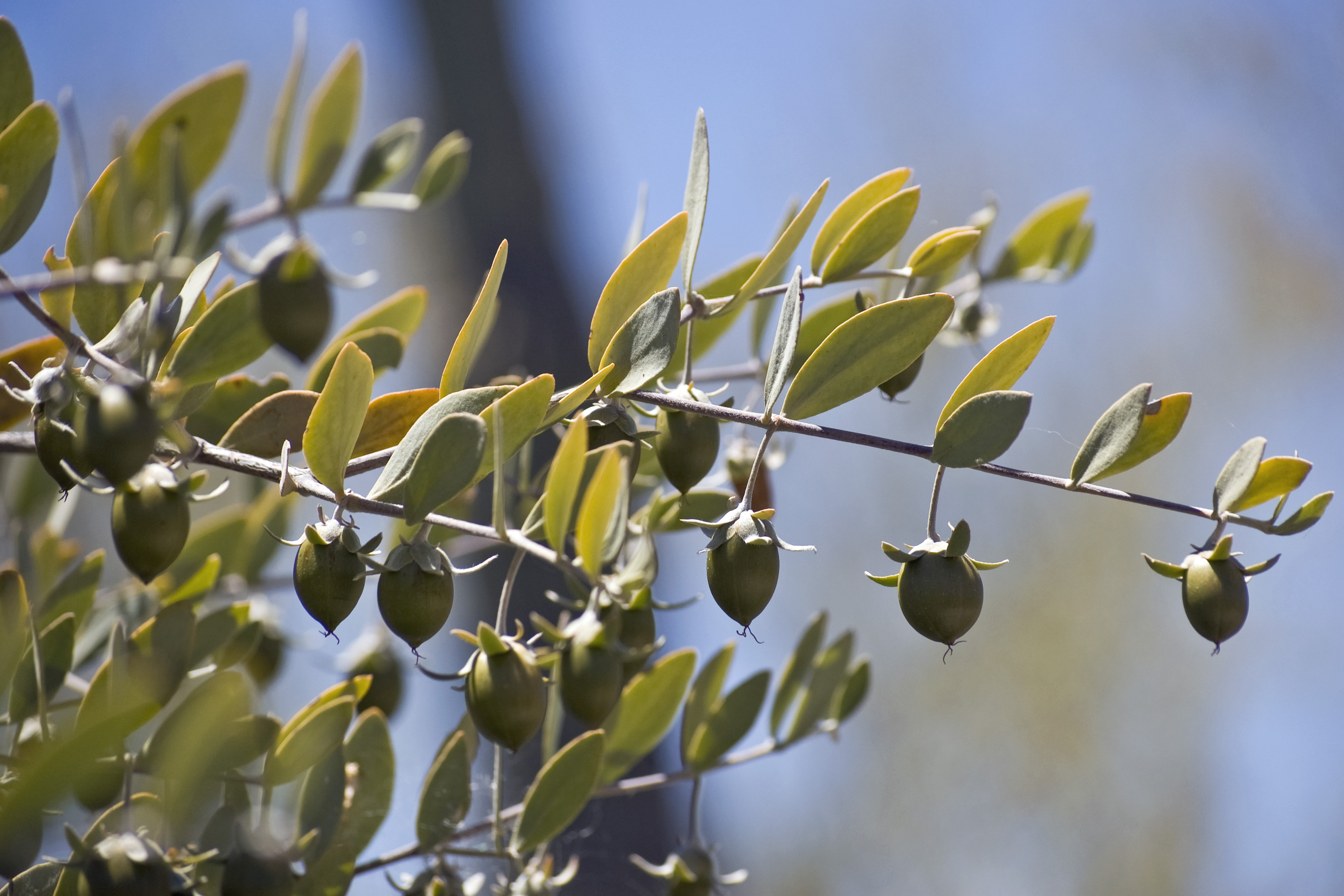 Seeds on a Female Jojoba Bush Jojoba oil is easily refined to be odorless, colorless and oxidatively stable, and is often used in cosmetics as a moisturizer and as a carrier oil for specialty fragrances. It also has potential use as both a biodiesel fuel for cars and trucks, as well as a biodegradable lubricant.